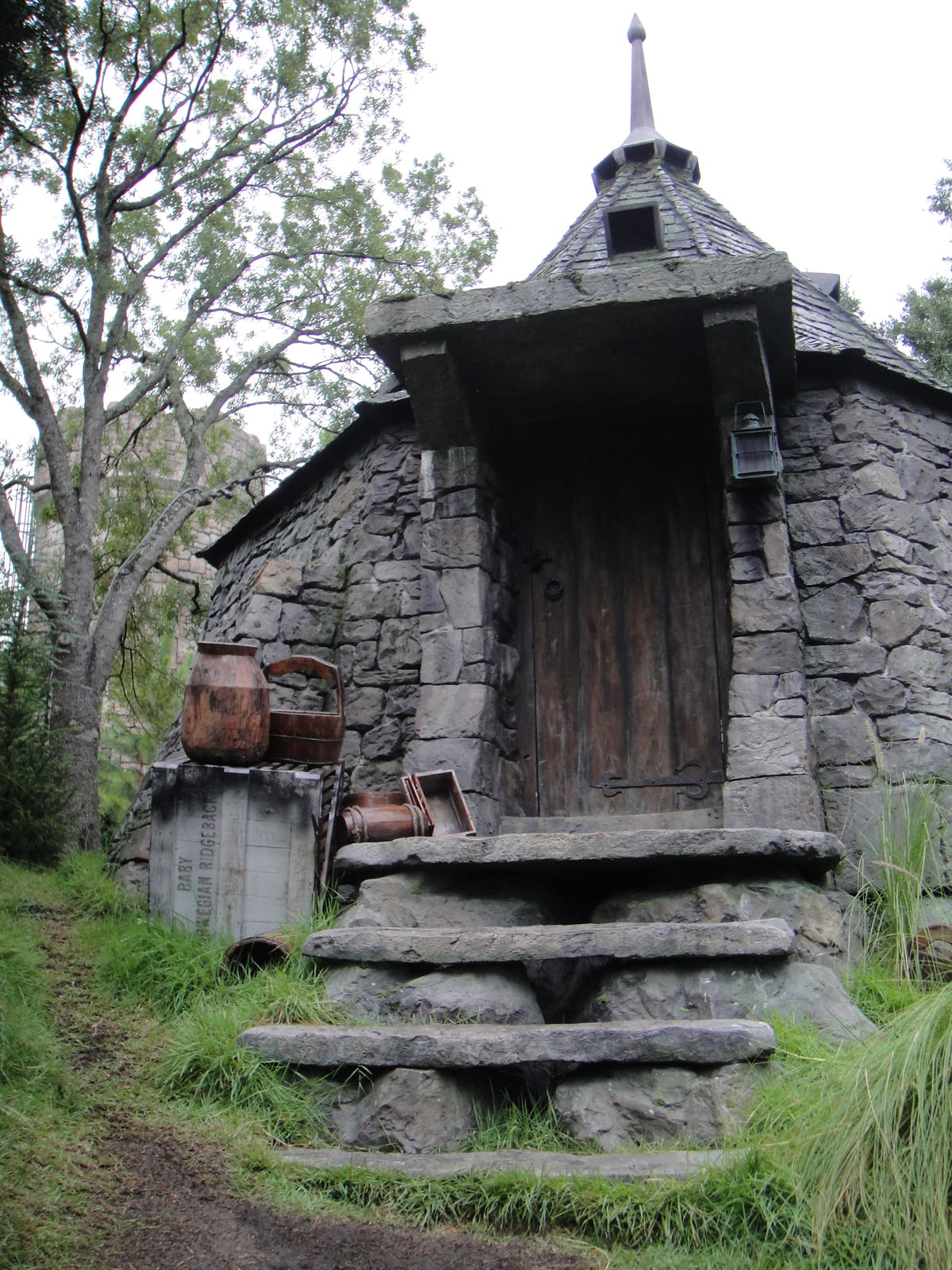 Wizarding World of Harry Potter - Hagrid's hut